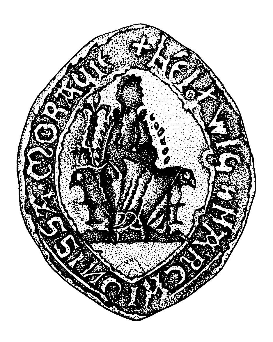 seal of Heilwida, wife of moravian margrave Vladislaus Henry, on a deed from 27th April 1218.